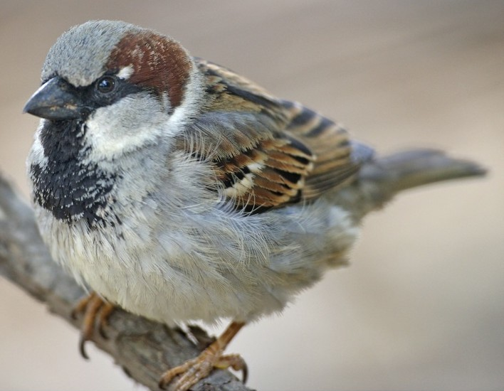 A House Sparrow (Passer domesticus) in Royal Park, Melbourne, Victoria, Australia. Original image has been flipped.